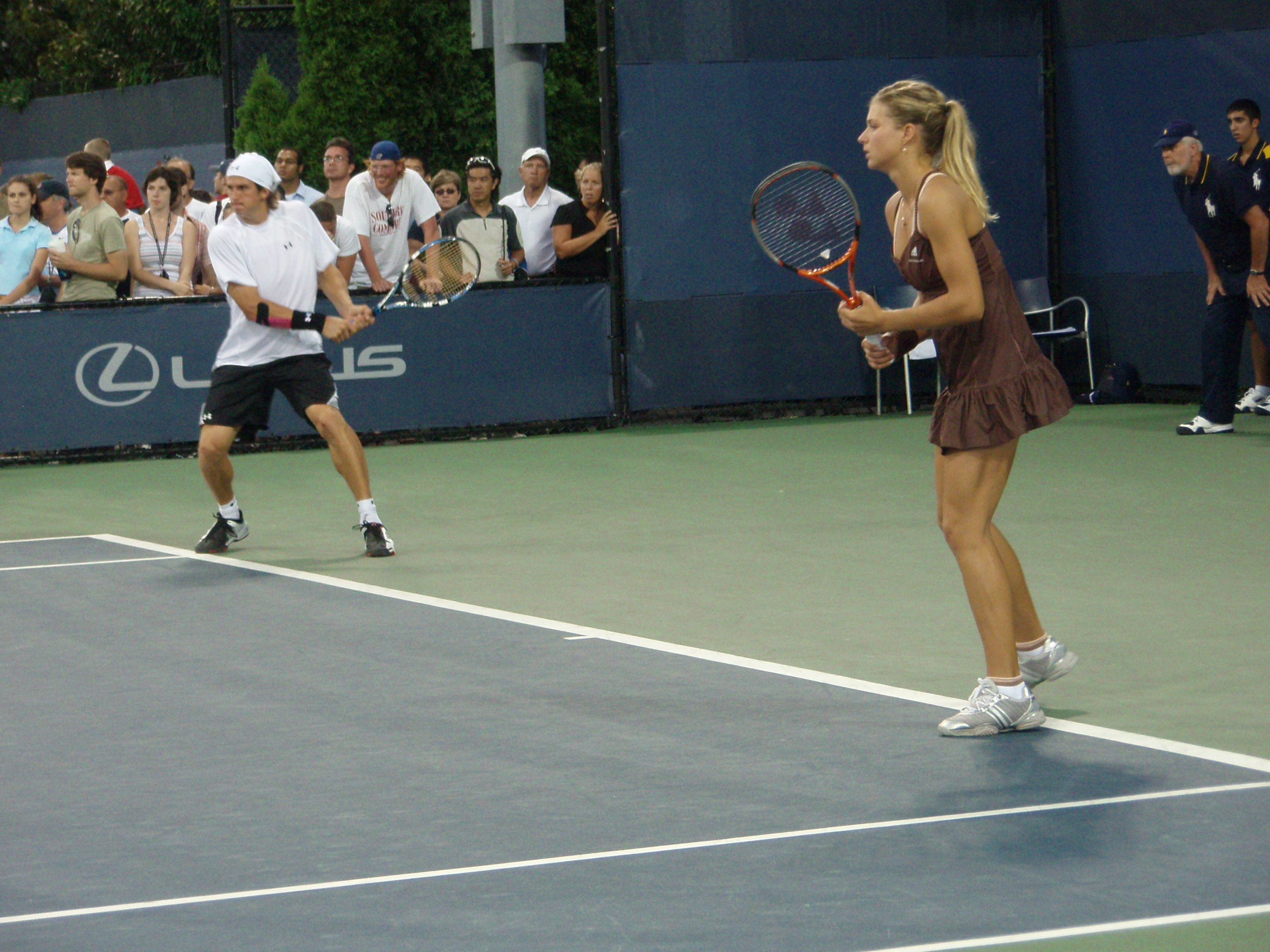 Maria Kirilenko Playing Mixed Doubles At 2007 US Open